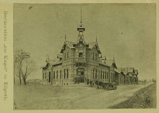 Hotel u Koule Ostrava Mariánské Hory